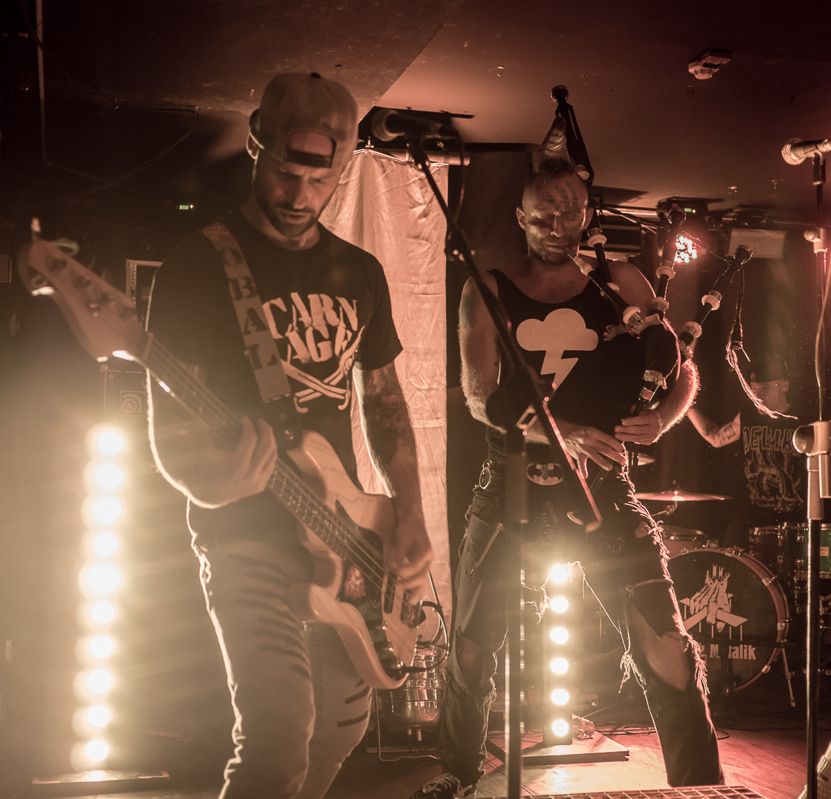 Pipes & Pints - Zaragoza 24/10/2015